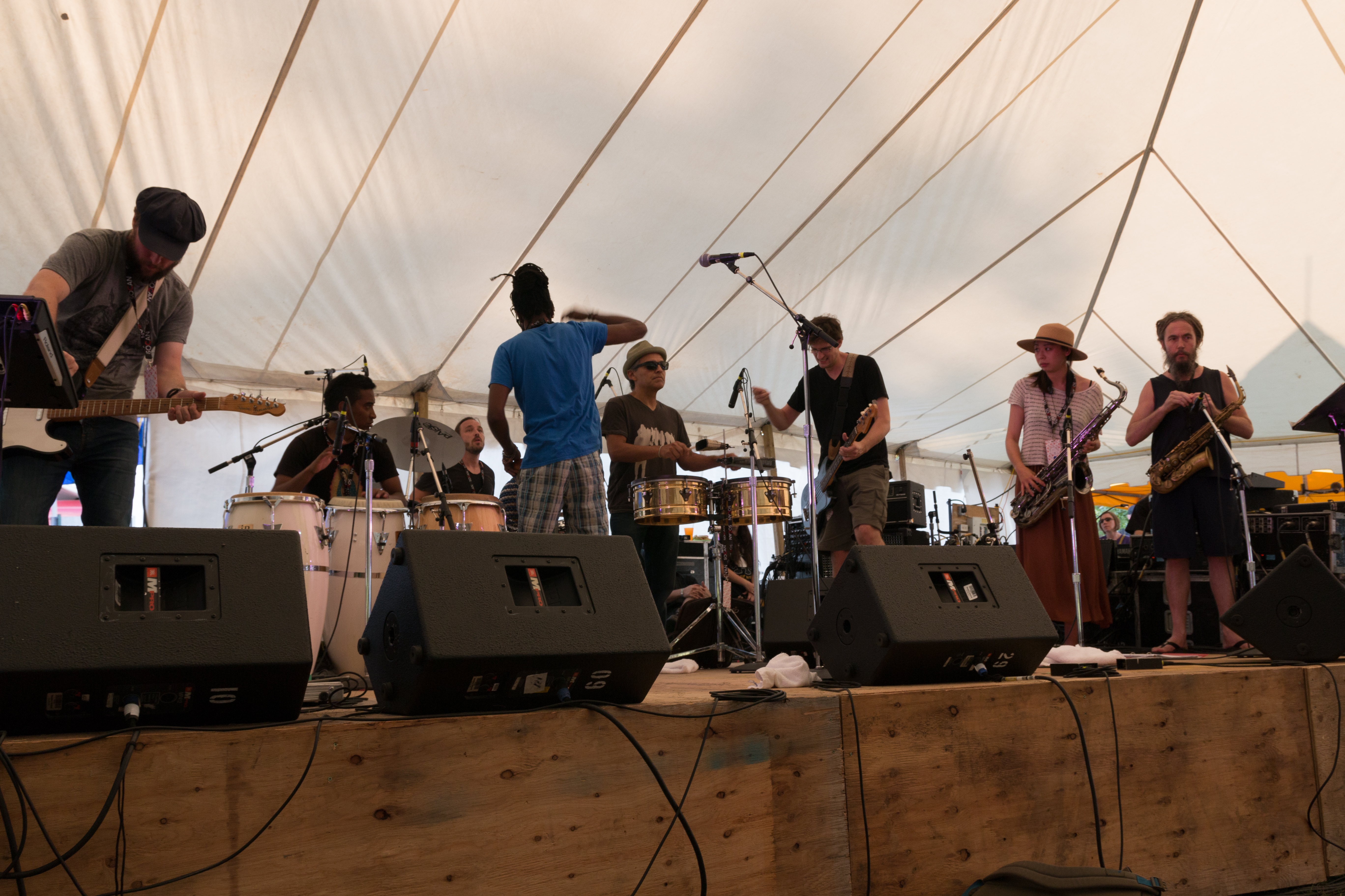 The band Battle of Santiago performing at the 2015 Hillside Festival in Guelph, ON